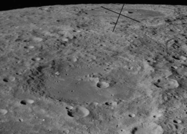 Oblique view of Fabry (crater), facing northeast, on the far side of the moon. The larger crater Compton is in the background (behind the cross).